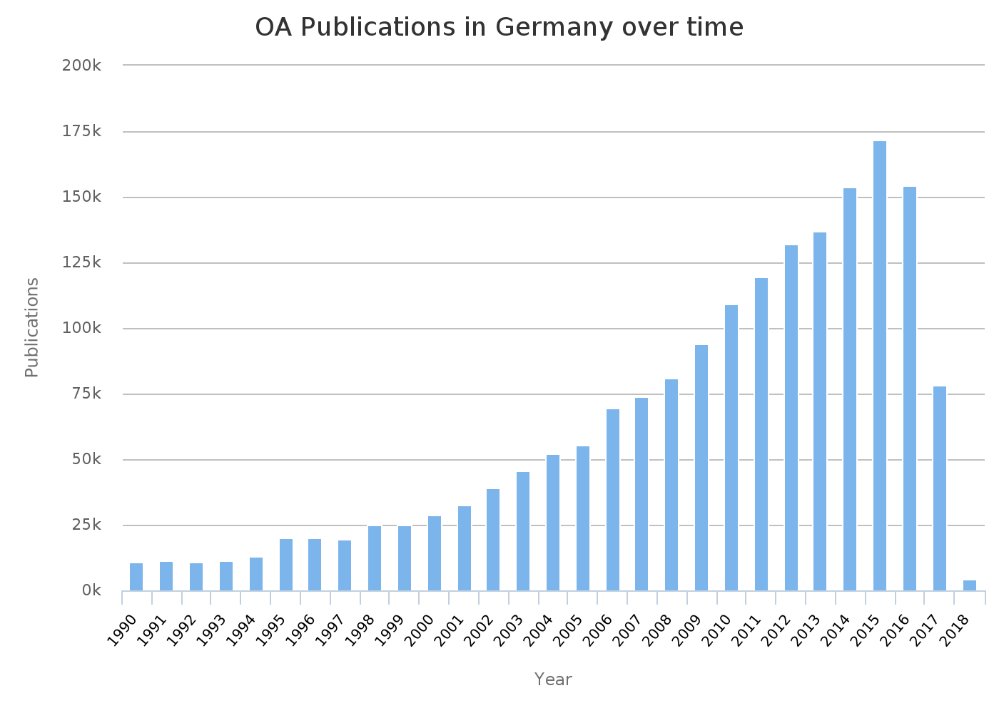 Bar graph describing open access to scholarly communication in Germany